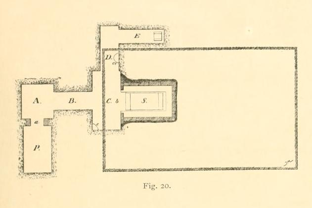 Plan of the ancient Egyptian tomb of vizier Khnumhotep III, located within the pyramid complex of pharaoh Senusret III (12th Dynasty) at Dahshur, and discovered by Jacques de Morgan in 1894.